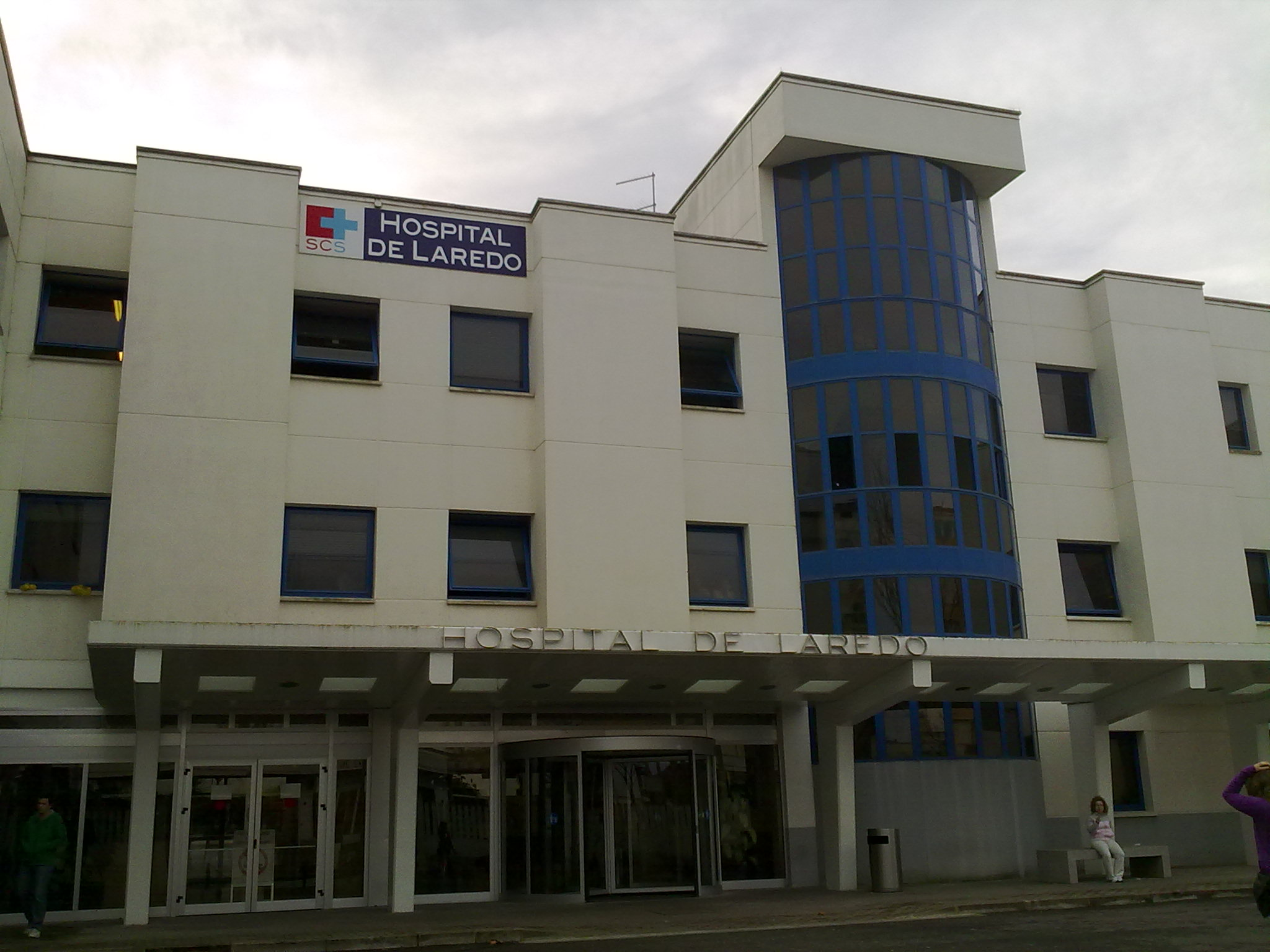 hospital de laredo